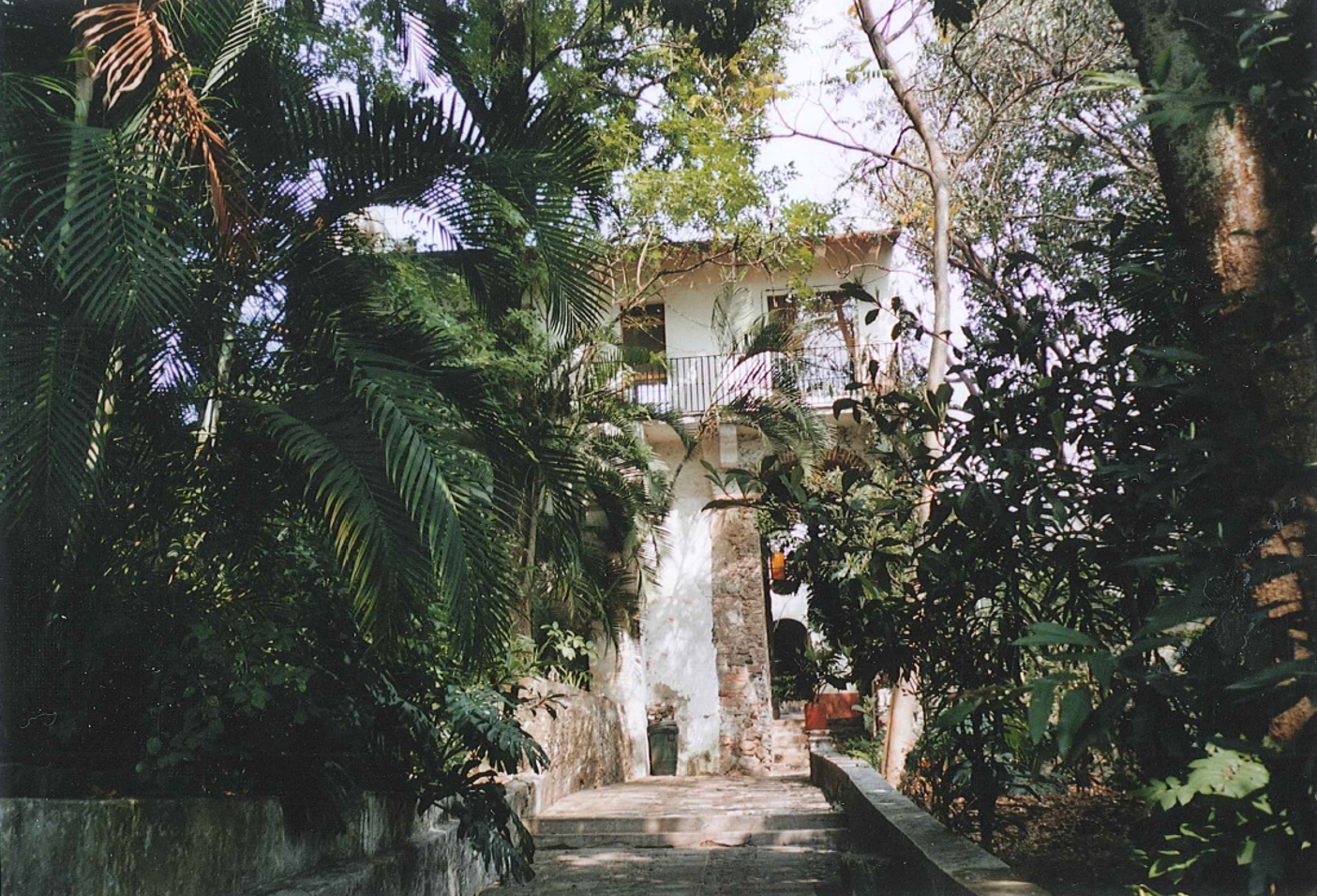 Mansion in Jardín Borda, Cuernavaca, Morelos, Mexico